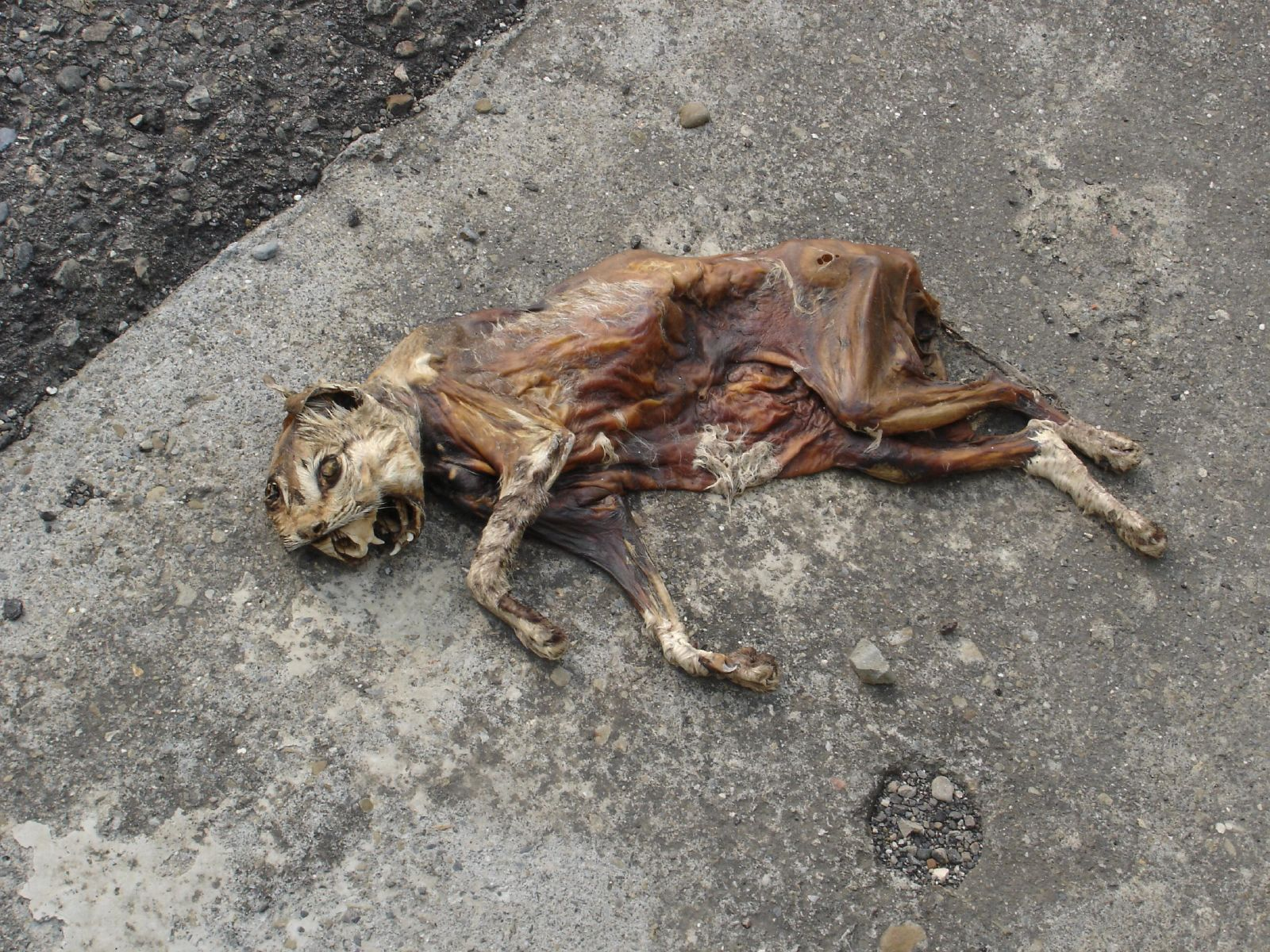 My friend took this cat corpse for me, amazing!